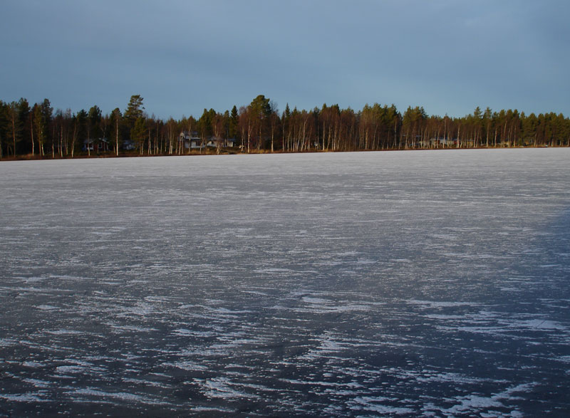 Lake Själafjärden on Obbola island, Västerbotten county, Sweden.